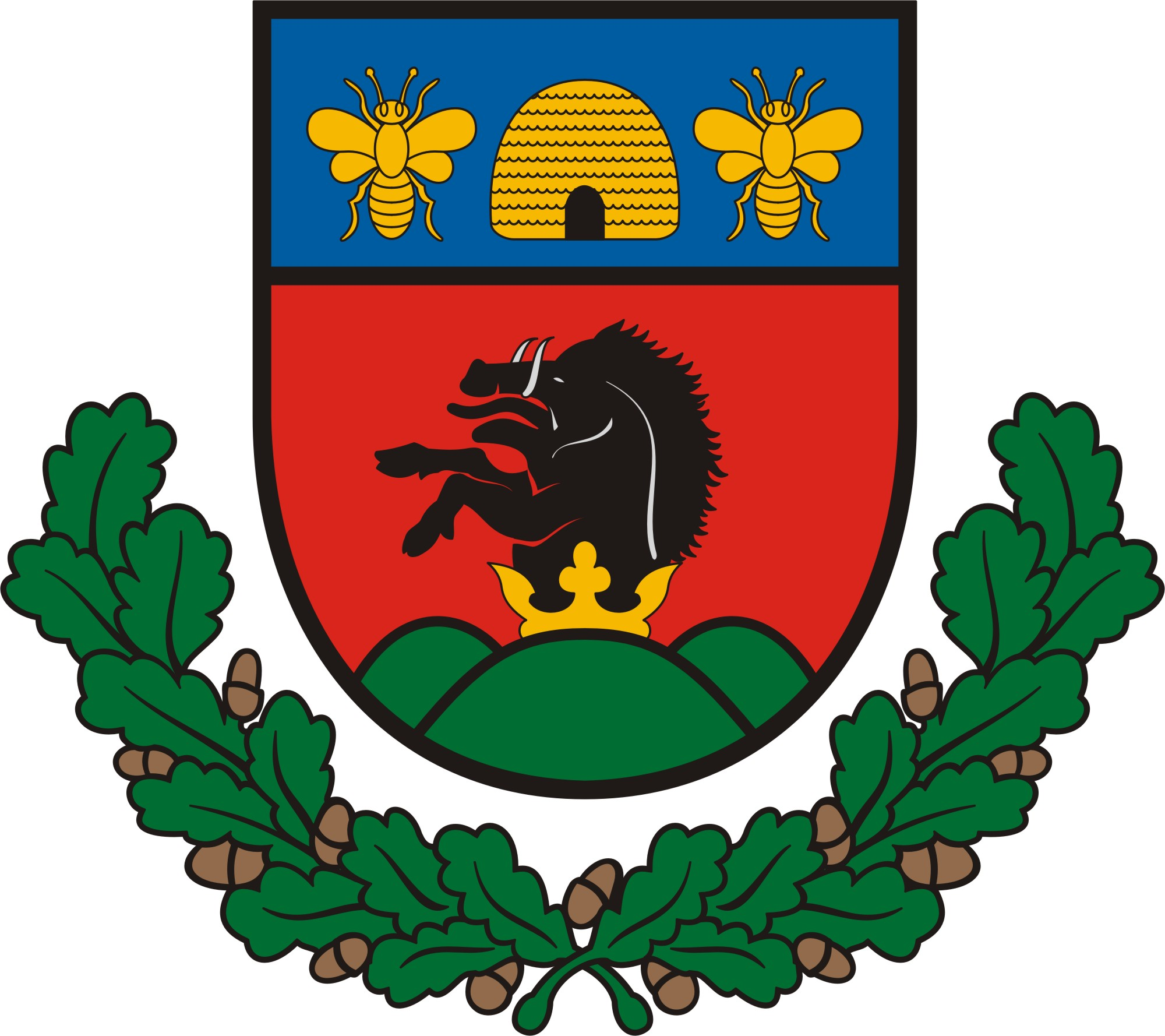 Coat of arms of Zselickisfalud, Hungary